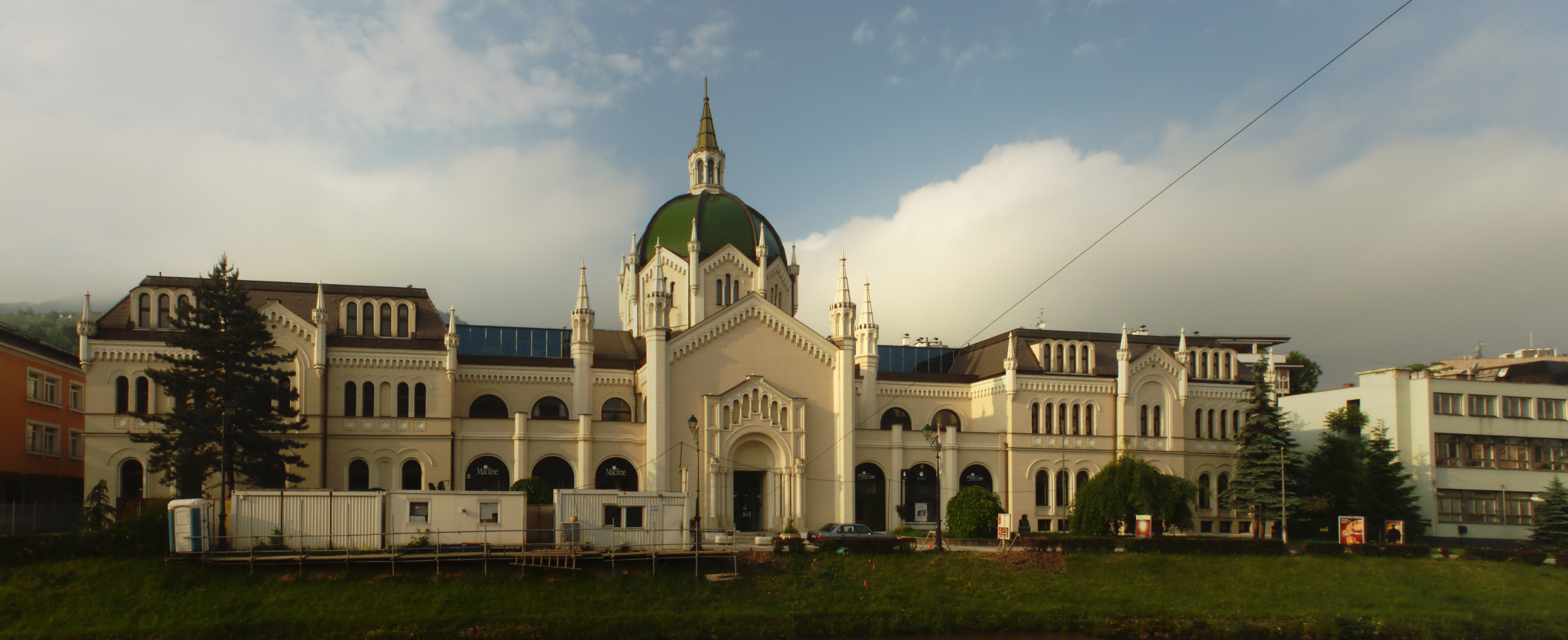 Academy of Fine Arts on the Miljacka riverbank in the central part of Sarajevo, capital of BiH